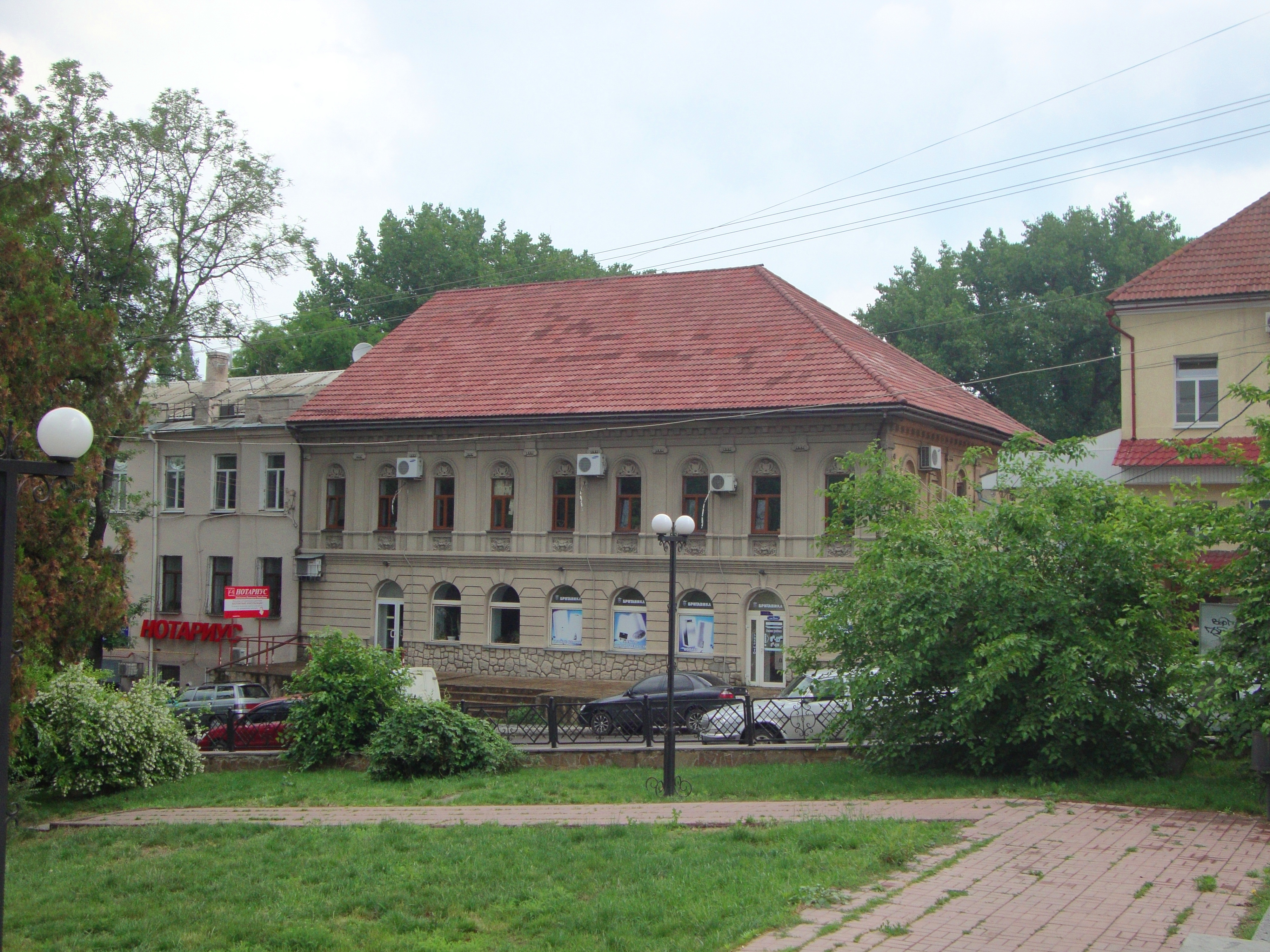 Revolution square in Luhansk, Ukraine